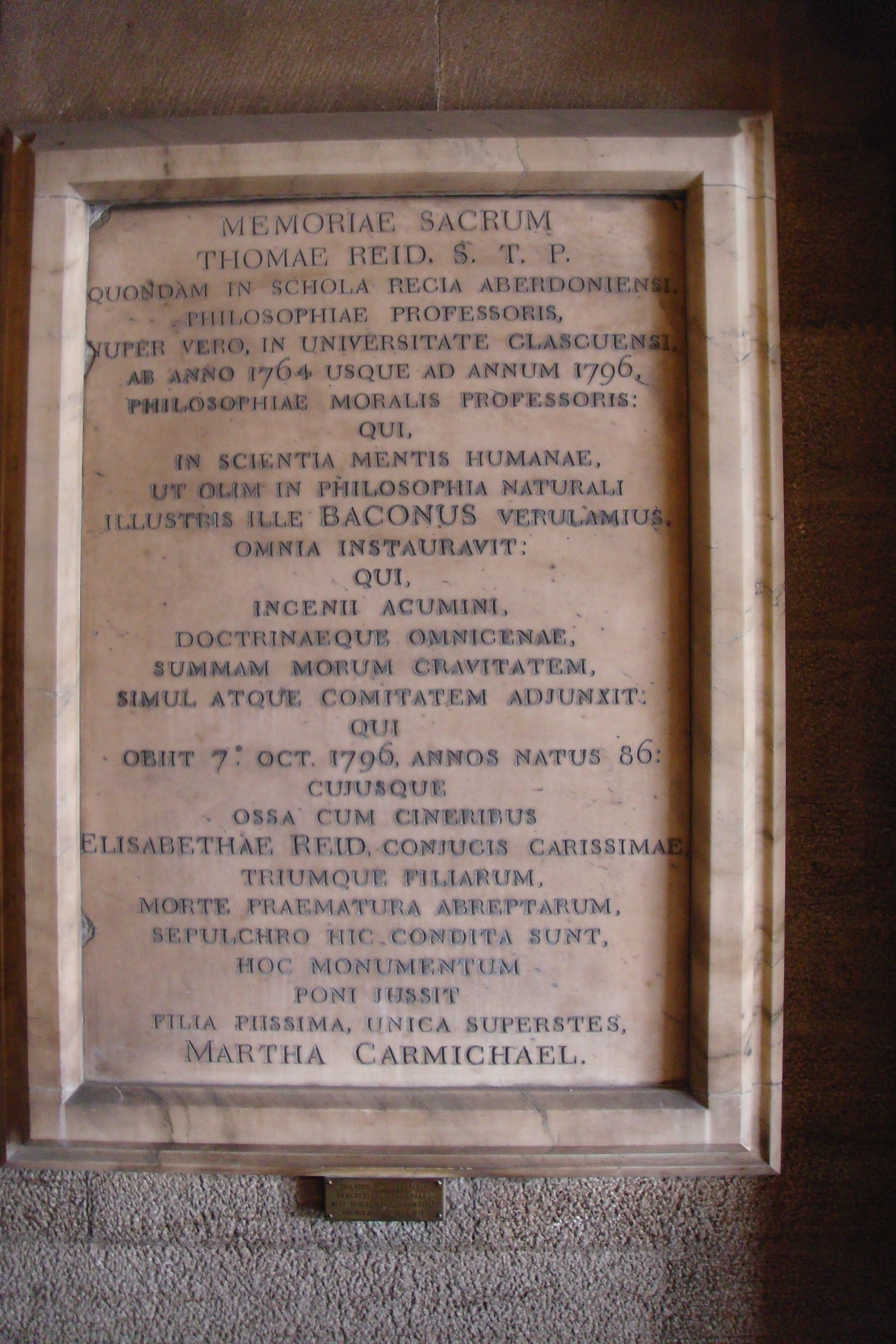 I took this photo of Thomas Reid's tombstone at Glasgow University in June 2011.